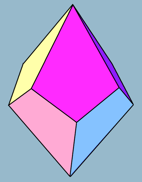 Tetragonal trapezohedron